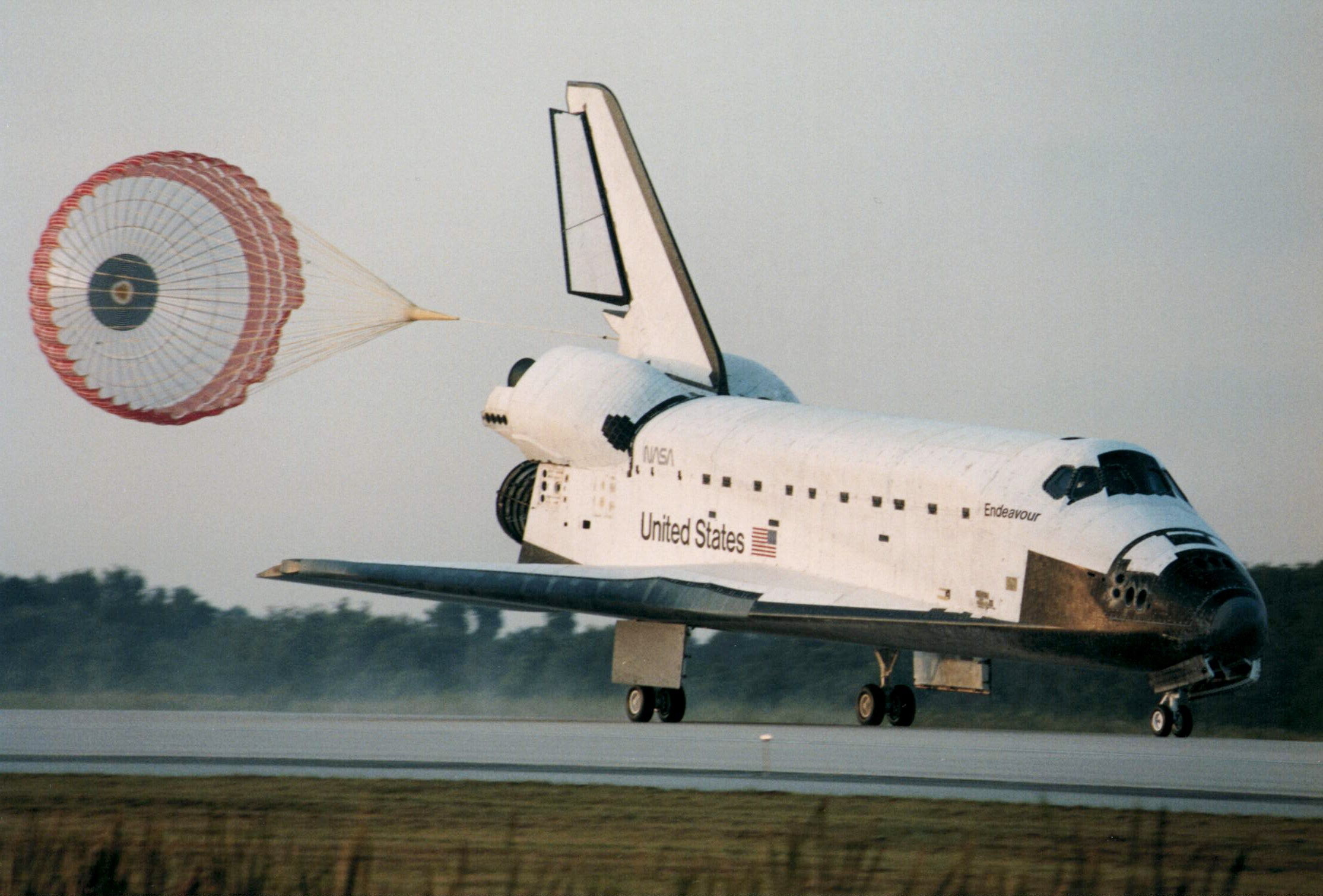 STS-69 Mission Commander David M. Walker guides the orbiter Endeavour to an end-of-mission landing on Runway 33 of KSC's Shuttle Landing Facility.